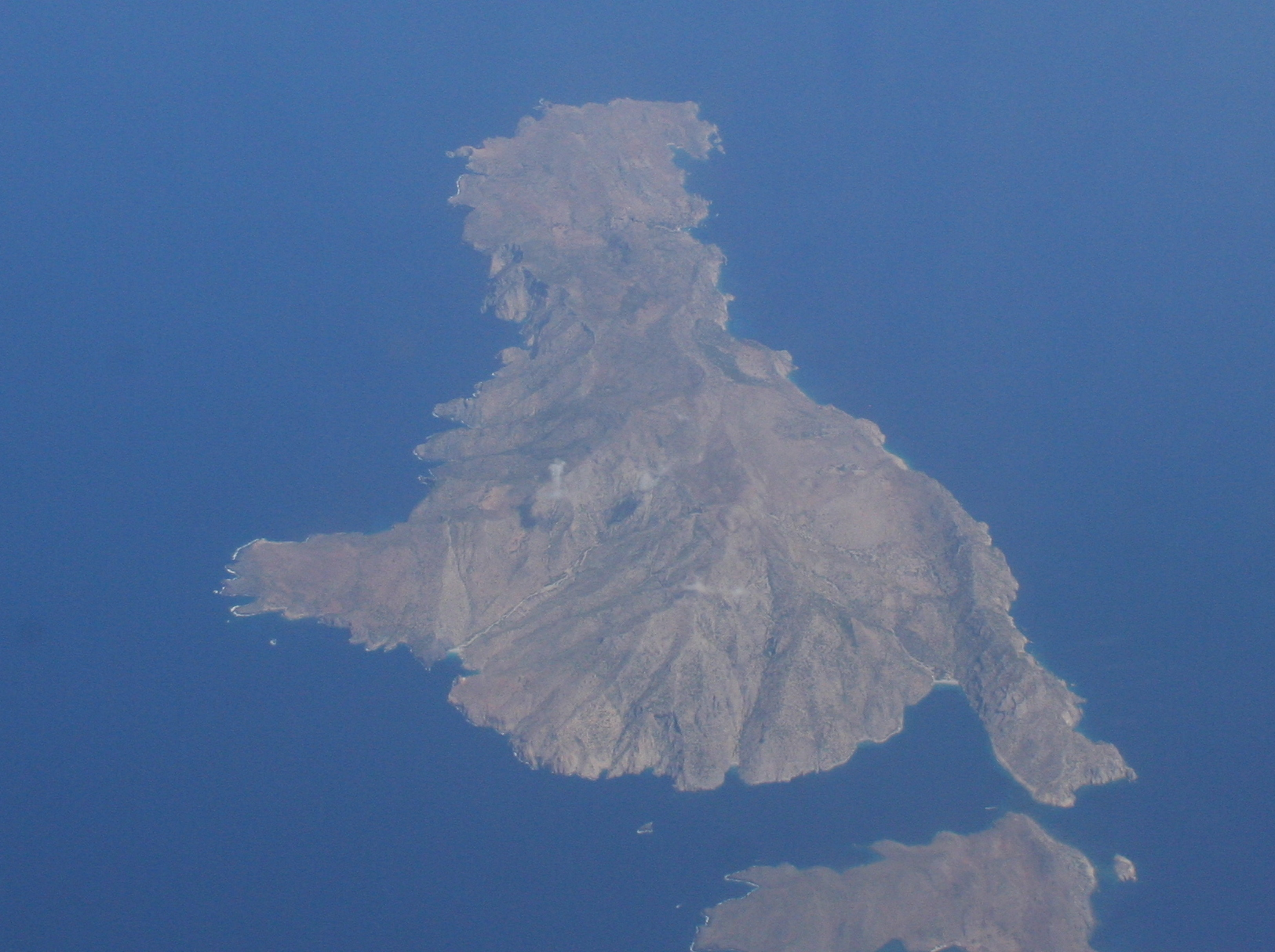 Saria Island (Greek: Σαρία) is an island in Greece, along the northern edge of Karpathos, separated from it by a strait 100 m (330 ft) wide. Photo taken in flight.